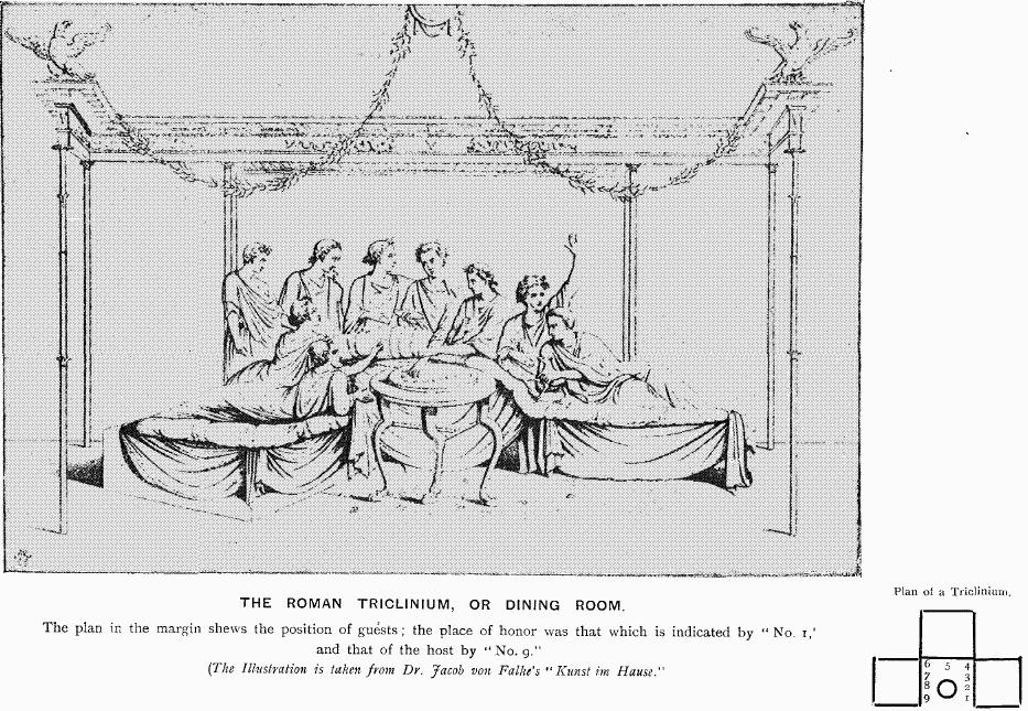 Illustration from Illustrated History of Furniture, From the Earliest to the Present Time from 1893 by Litchfield, Frederick, (1850-1930)